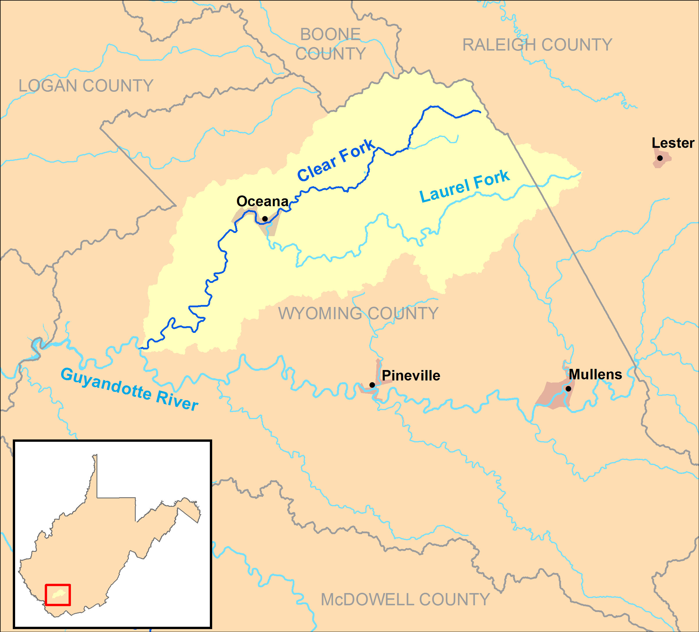 A map of the Clear Fork and its watershed (USGS HUC-10 0507010102, combining HUC-12 subwatersheds 050701010201, 050701010202, and 050701010203) in Wyoming and Raleigh counties, West Virginia.